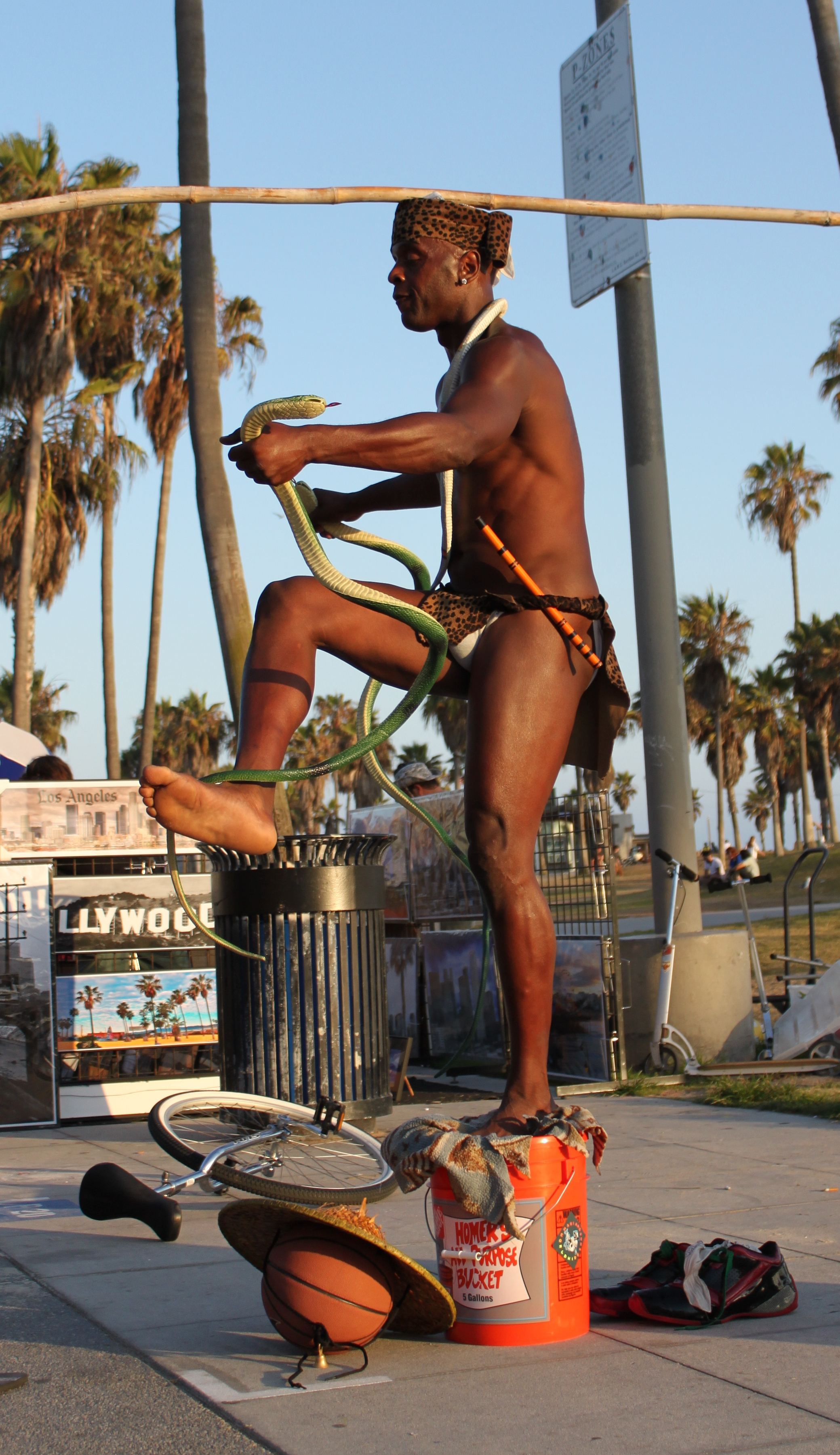 A street performer along the beachside boardwalk in Venice, Los Angeles, California, July 21, 2009.